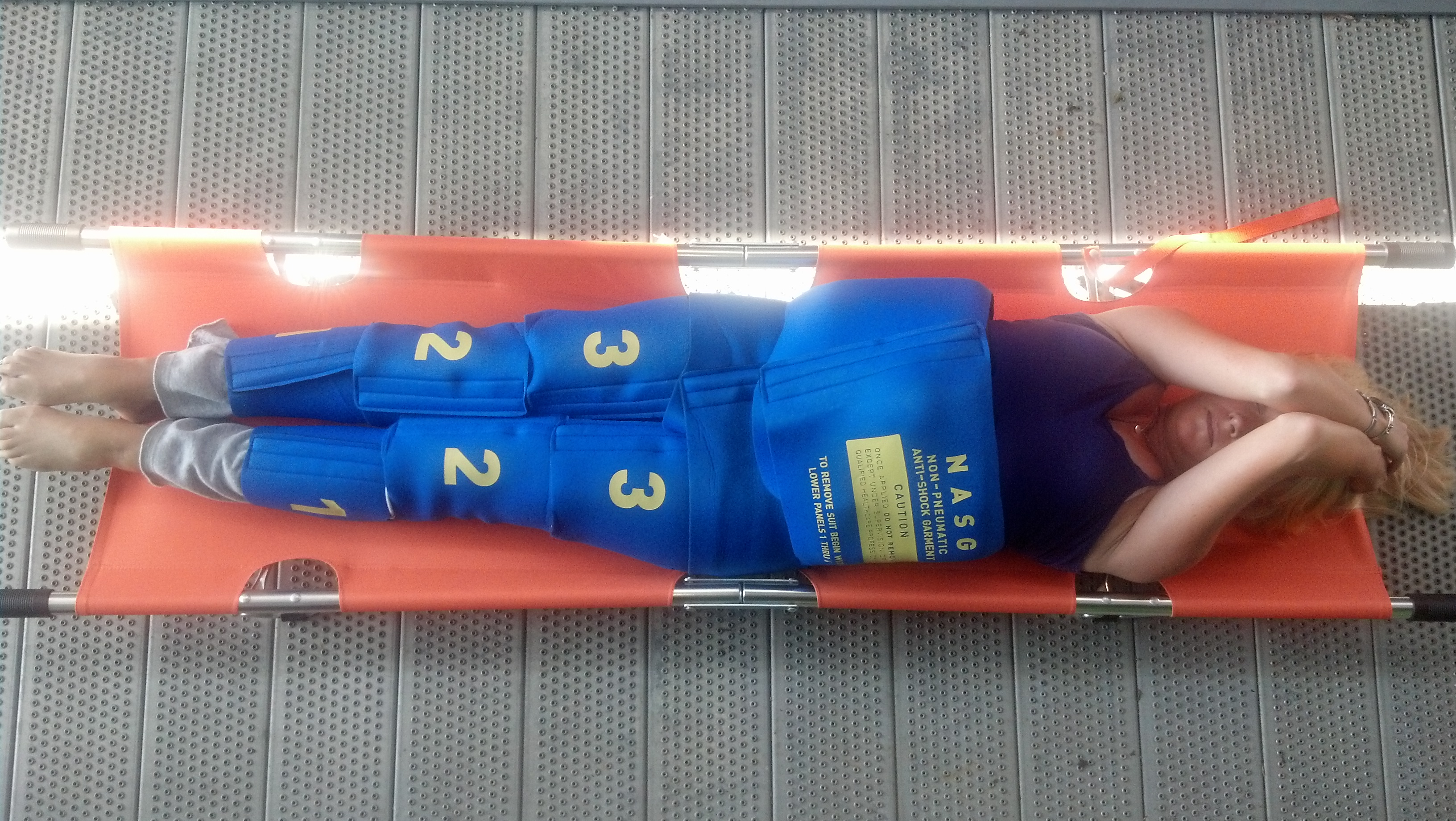 A nonpneumatic anti-shock garment (NASG)